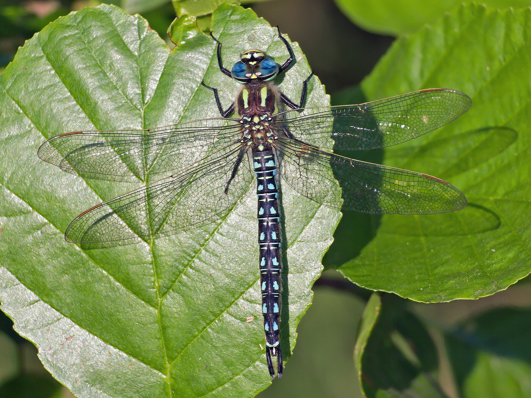 Male Hairy Hawker (Brachytron pratense); short resting in the evening sun.